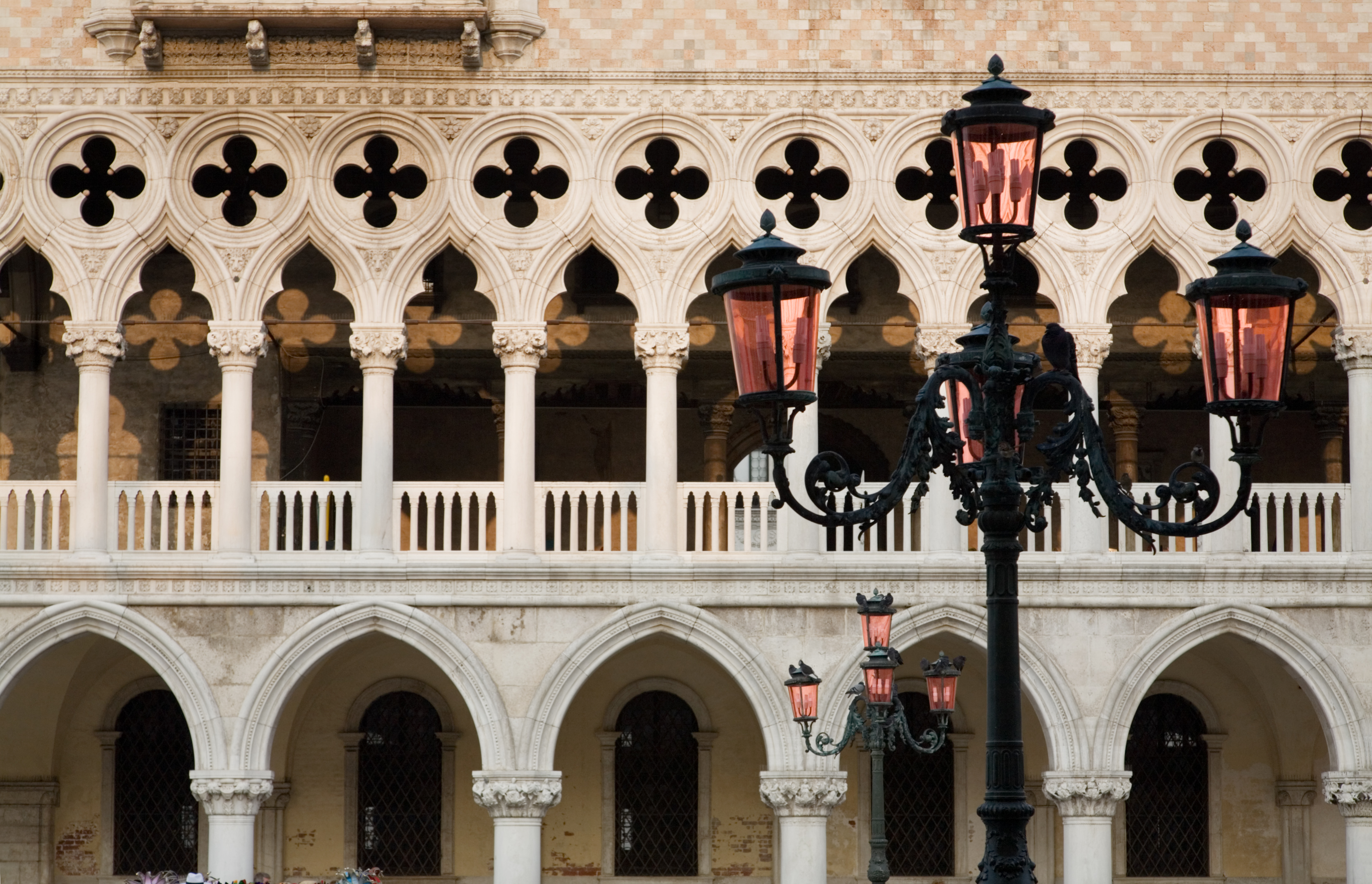 Detail of the Dux Palace. Piazza di San Marco, Venice, Italy 2009